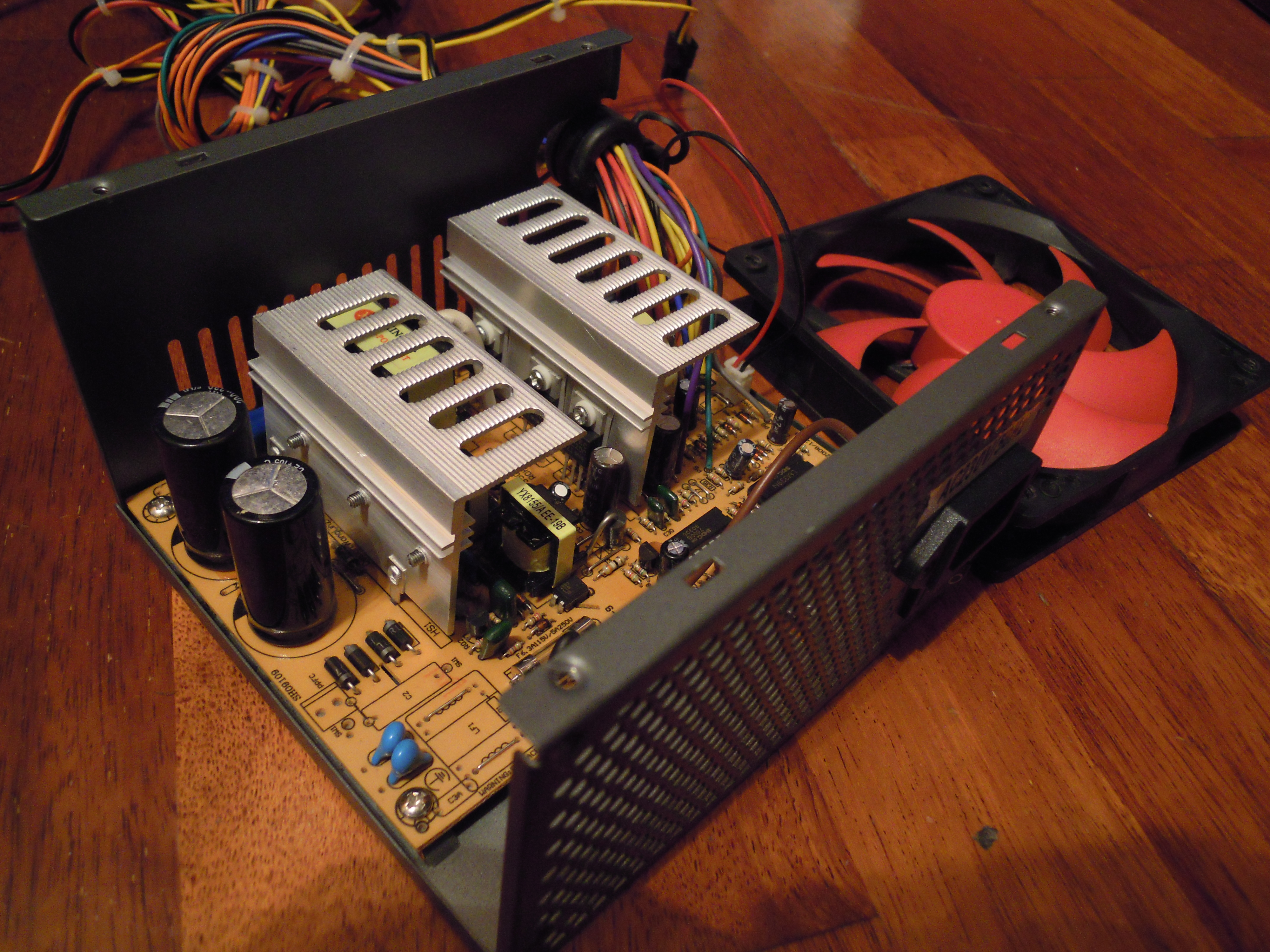 ATX Power Supply